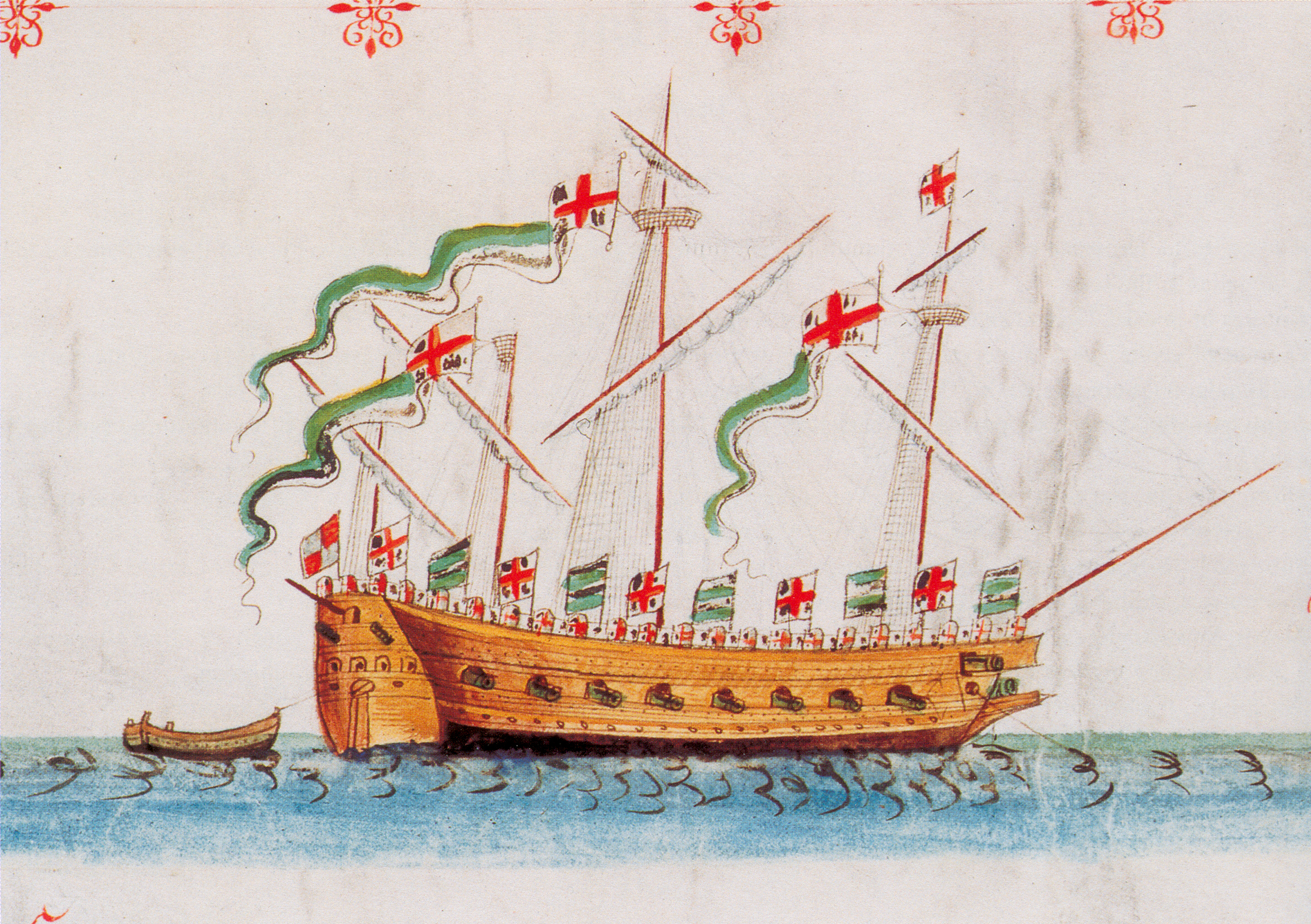 Illustration of the galleass Tiger. Notification about possible deletion Cathsuth (talk) 16:16, 9 February 2017 (UTC)